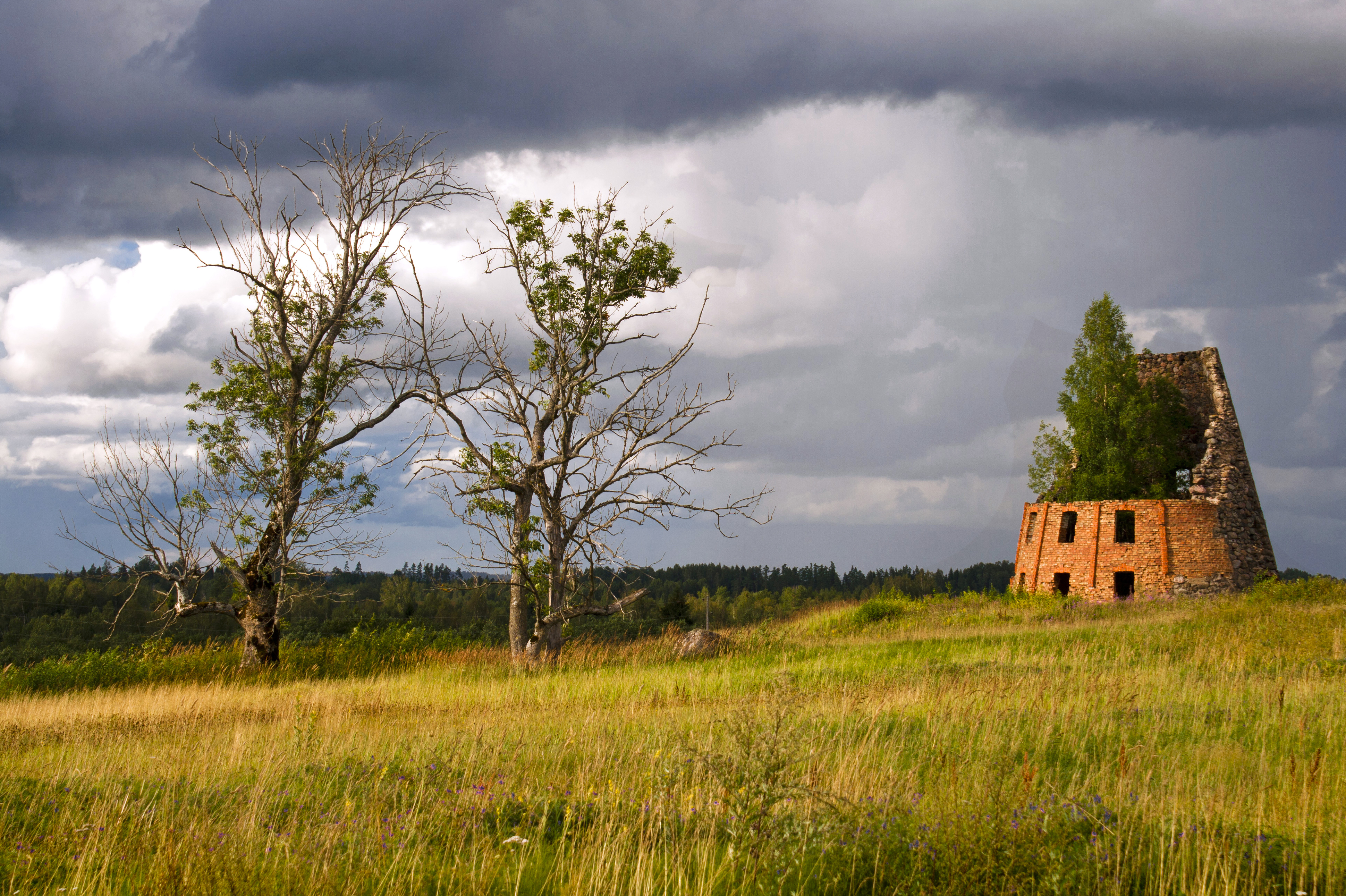 Windmill ruins on top of lowest of Bākūžu Hills - Laktas HillLatviešu: Vējdzirnavu drupas uz zemākā no Bākūžu kalna virsotnēm - Laktas kalna